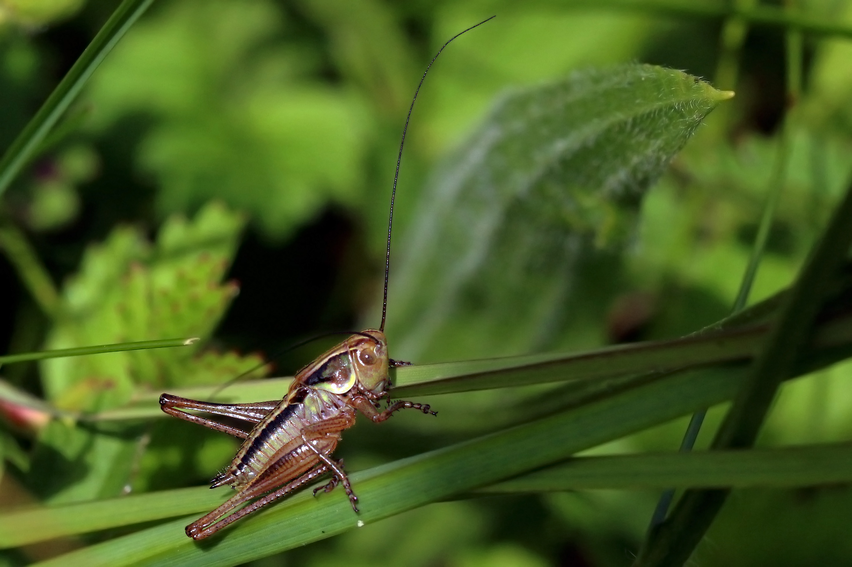 Roesel's bush-cricket (Metrioptera roeselii) nymph, Farmoor Reservoir, Oxfordshire